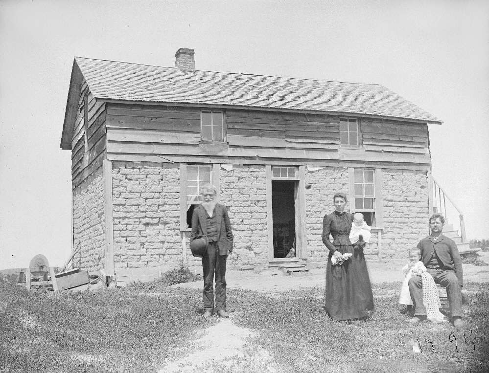 Frederick Schreyer and his family. He was a German American and the first settler on the South Loup between Callaway and Arnold, in Custer County, Nebraska (1875). For more informations see Solomon Devore Butcher: S. D. Butcher's pioneer history of Custer County, p. 14 (Google Books)